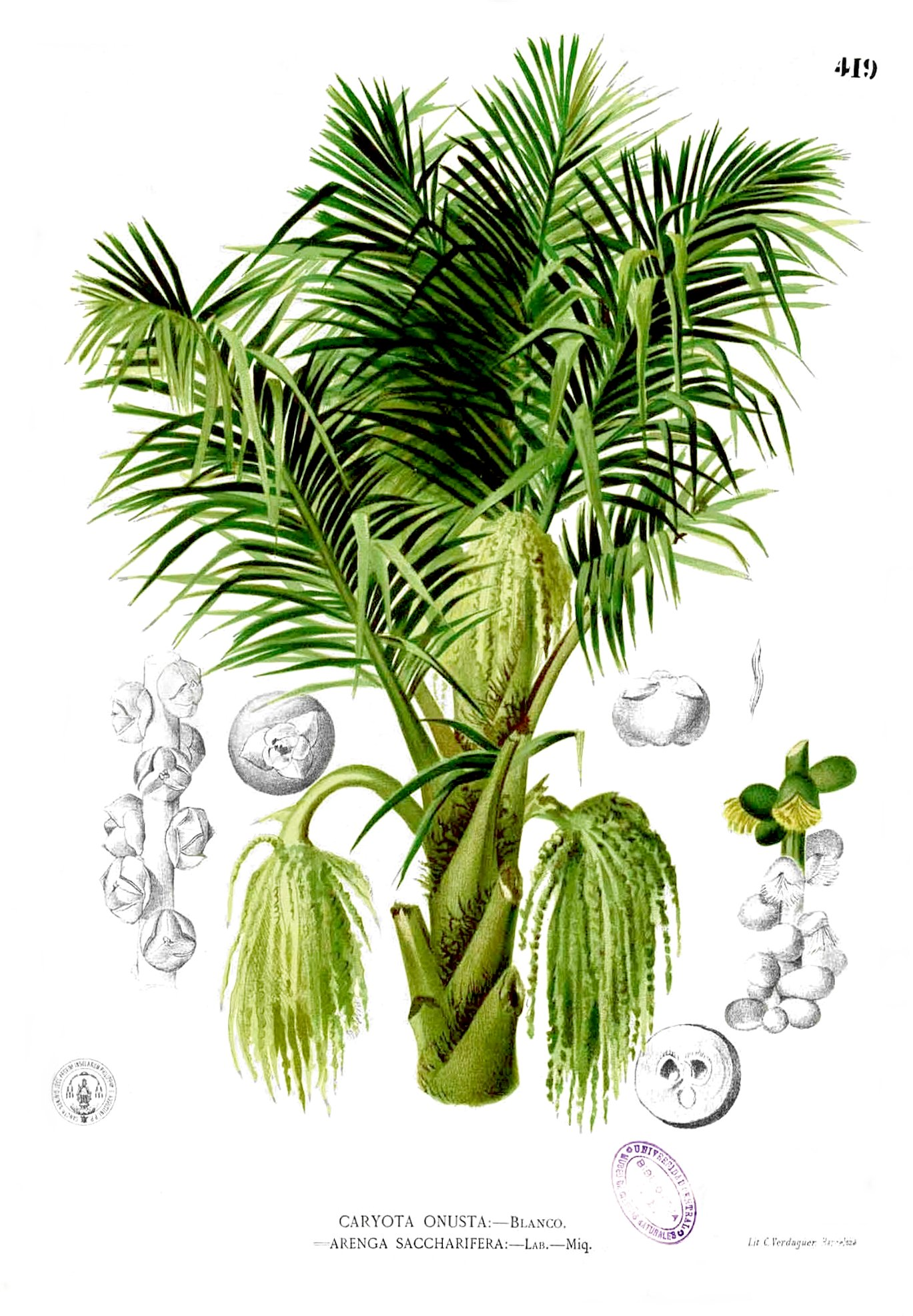 Species Arenga pinnata Plate from book